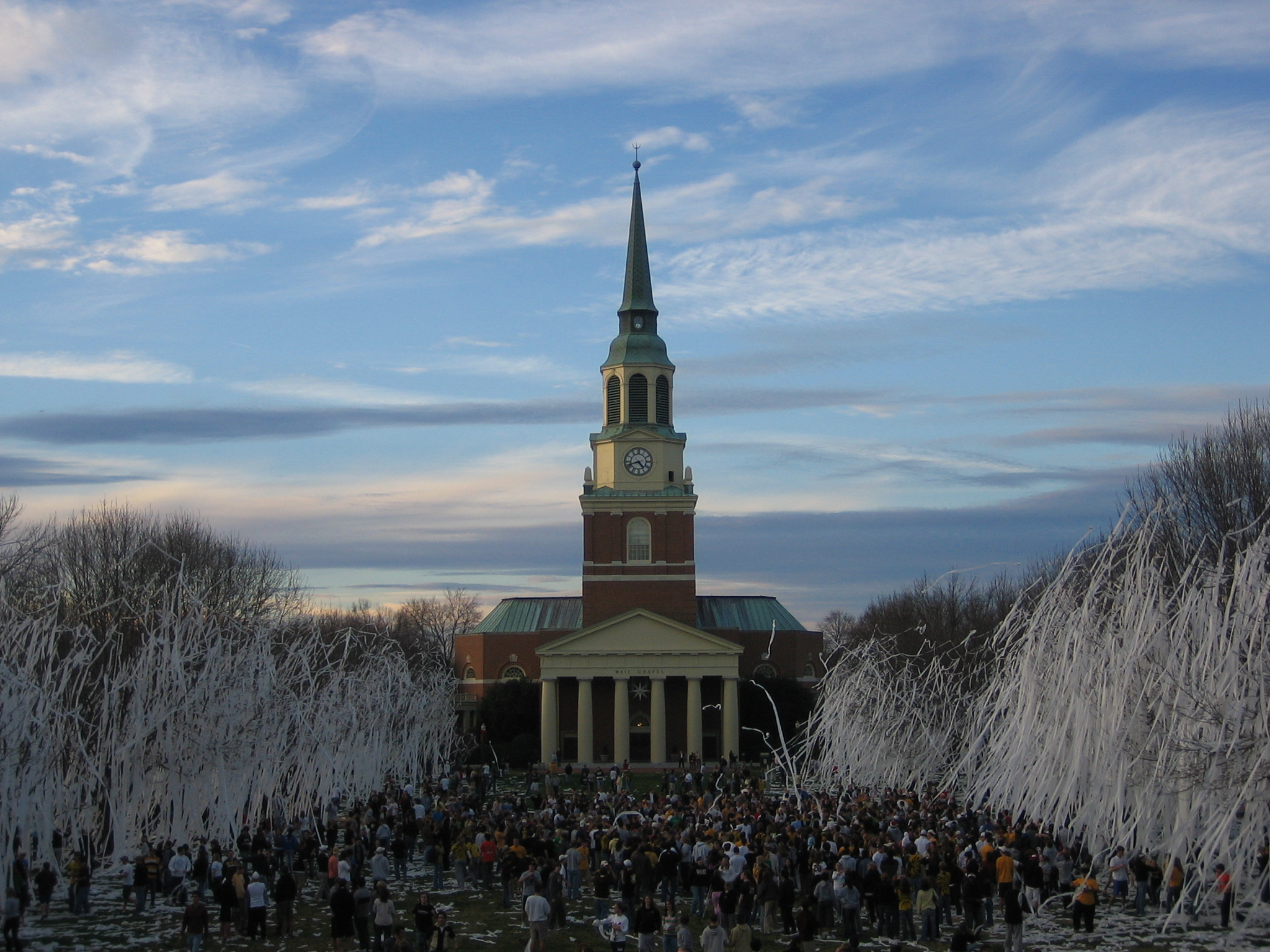 I took this picture on Saturday, December 2, 2006 after Wake Forest beat Georgia Tech for the ACC Championship. I release it to the public and all that... This is essentially what happens after Wake Forest wins a big sporting event and it involves students throwing toilet paper on the trees on the quad (Hearn Plaza).